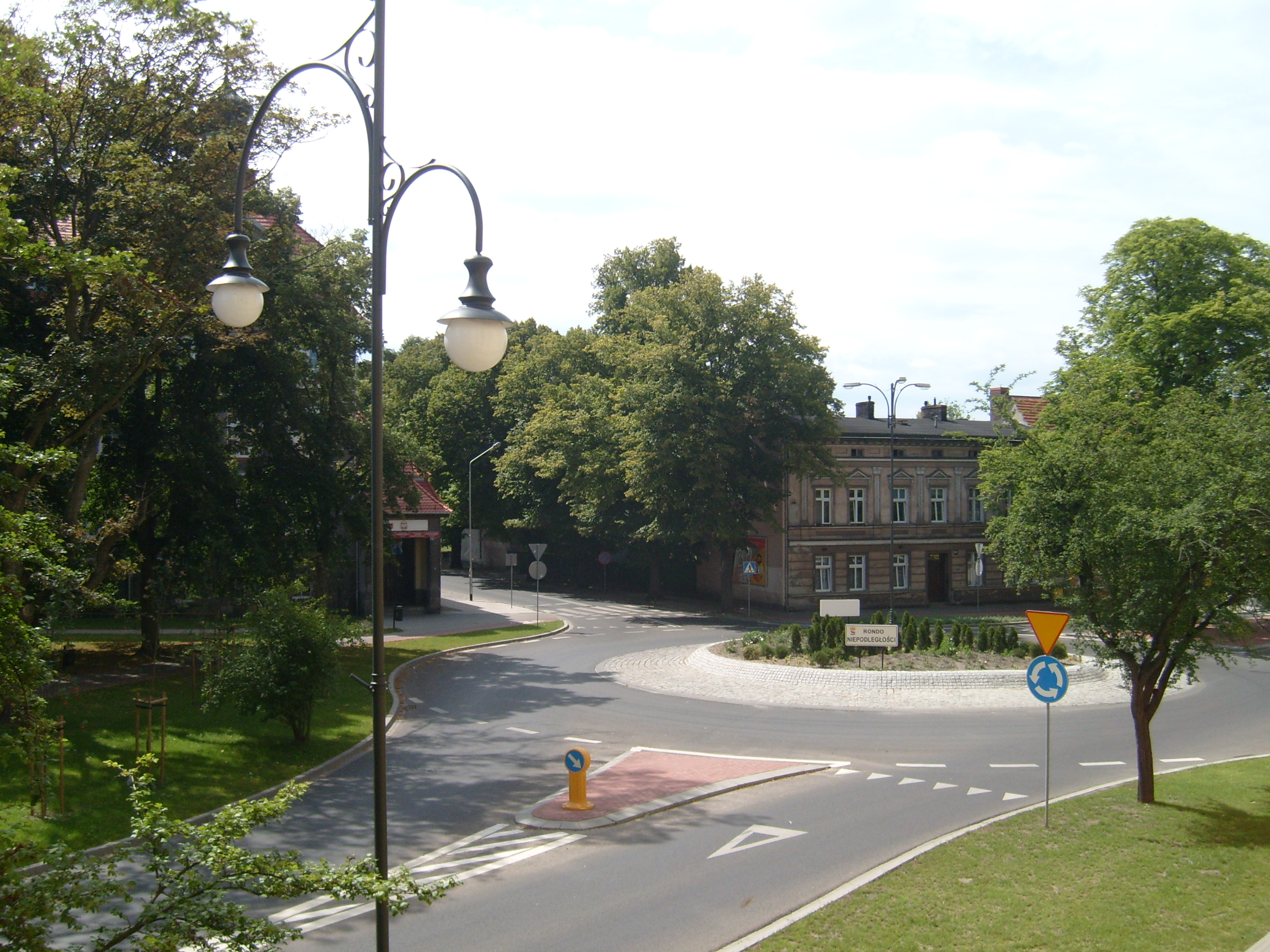 The Independence Roundabout in Trzcianka.